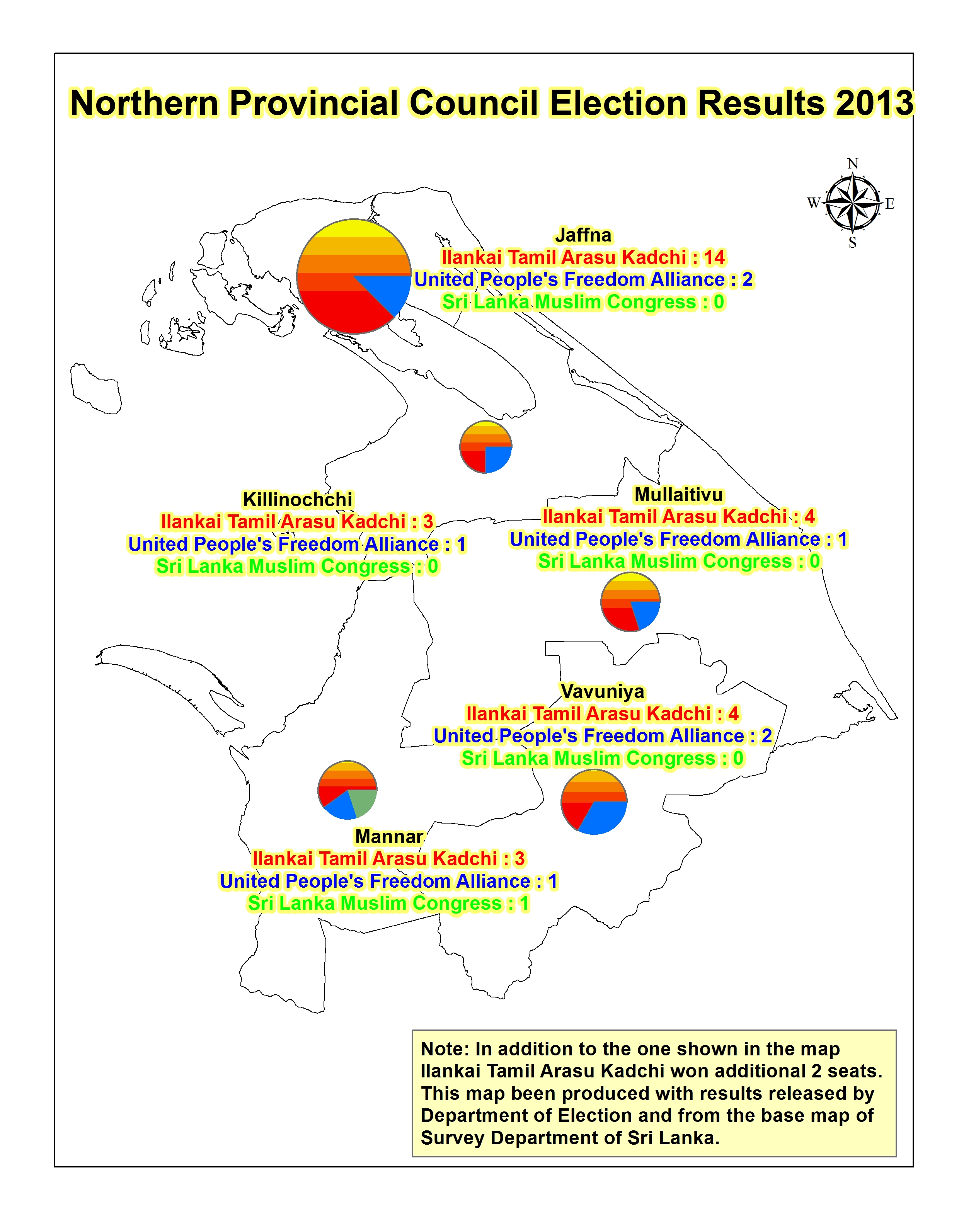 This map is produced by me based on the election results released by the Department of Elections and base map is from the Survey Department of Sri Lanka.